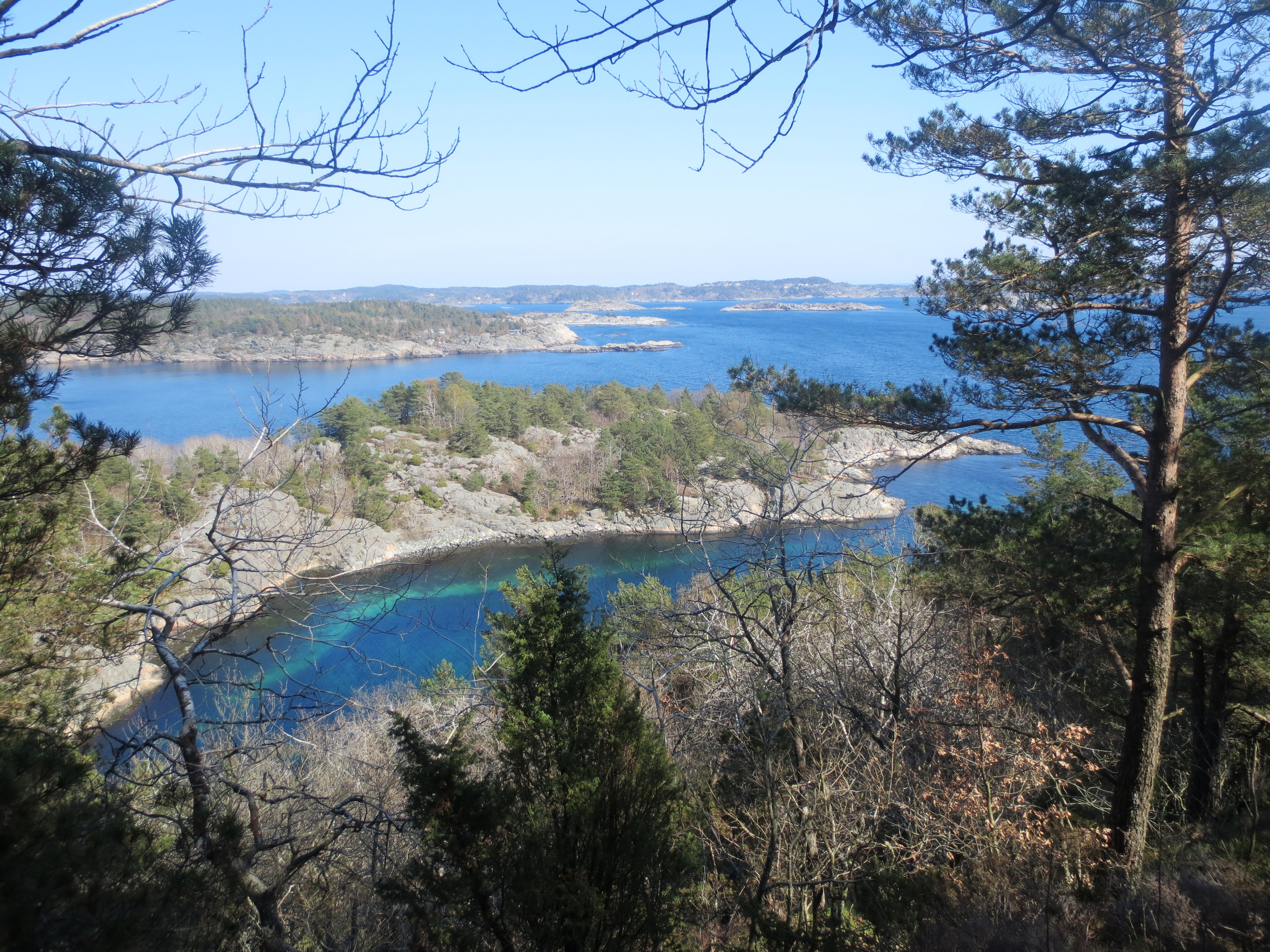 Kvassefjorden, a little fjord east of Kristiansand, Norway - marking the border between Vest-Agder county and Aust-Agder county.